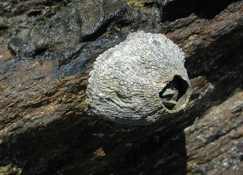 Tetraclitidae, Mission Beach National Park, Queensland, Australia, 2002